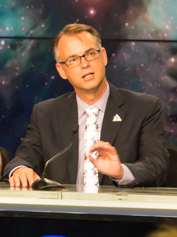 After the successful launch of the OSIRIS-REx by United Launch Alliance, PI Dante Lauretta answers questions from the press during the post-launch brief.